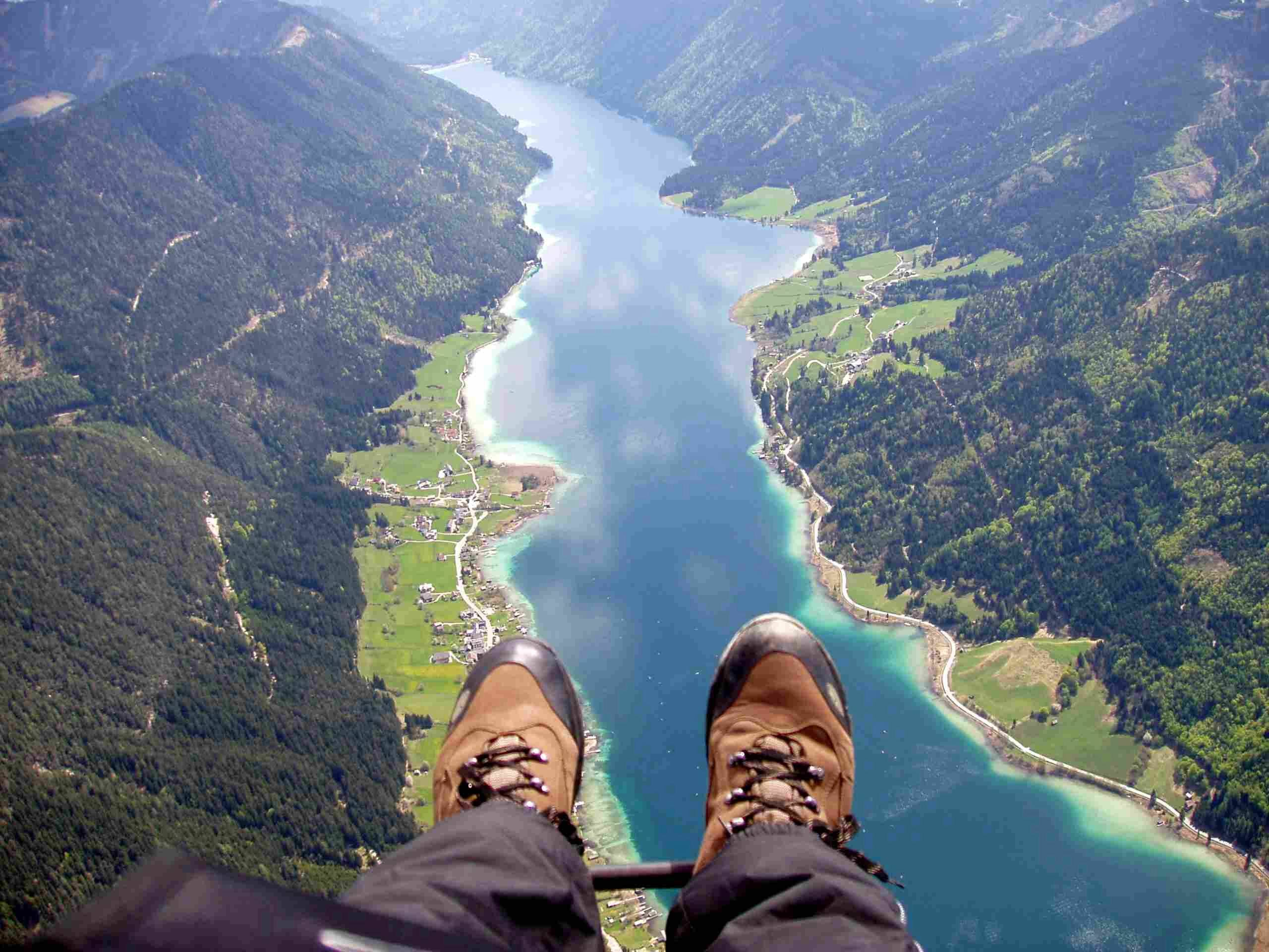 Aerial photograph of Weissensee, Carinthia, Austria taken during a paraglider flight.